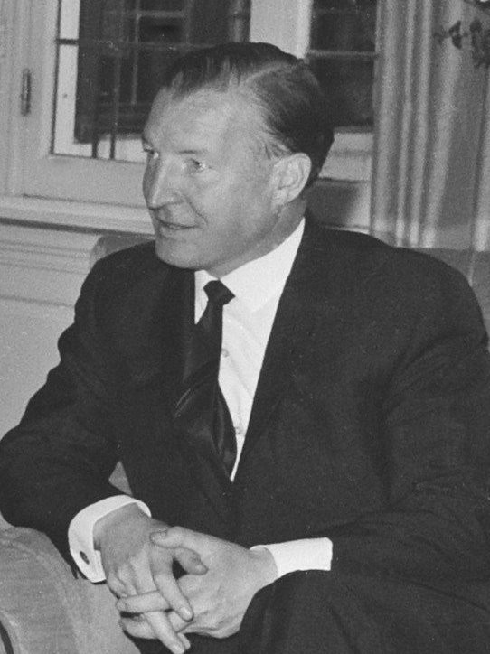 Minister Charles Haughey, June 1967